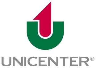 Logo of Argentine mall Unicenter.